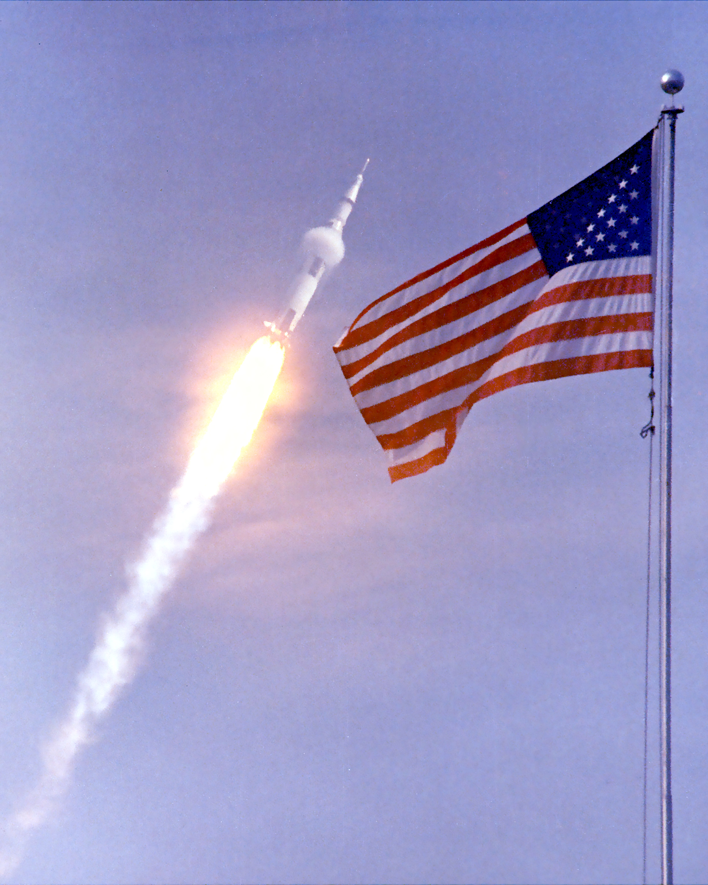 Apollo 11 flies towards earth orbit with the American flag in the foreground. The Apollo 11 Saturn V rocket launched with astronauts Neil Armstrong, Michael Collins and Buzz Aldrin, at 9:32 a.m. EDT July 16, 1969, from Kennedy Space Center's Launch Complex 39A. During the eight-day mission, Armstrong and Aldrin descended in a lunar module to the moon's surface while Collins orbited overhead in the command module. The two astronauts spent 22 hours on the moon, including two and one-half hours outside the lunar module. They gathered samples of lunar material and deployed scientific experiments which transmitted data about the lunar environment. They rejoined Collins in the command module for the return trip to earth.